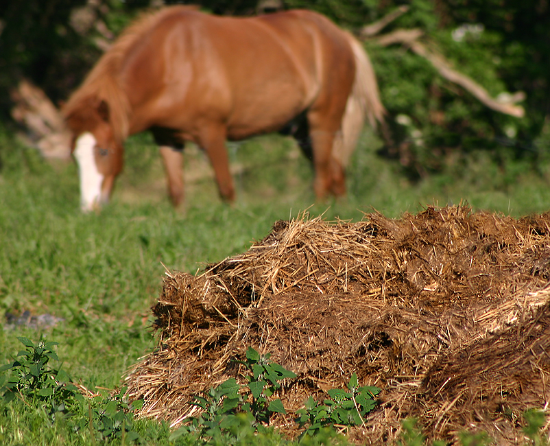 Manure, a field in Randers in Denmark.